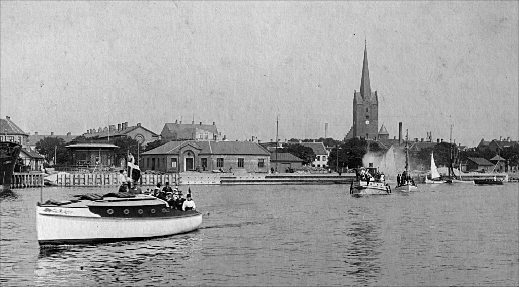 A party of small boats heading out form the port of Nakskov for a picnic on the fjord, period of 1924-1920.